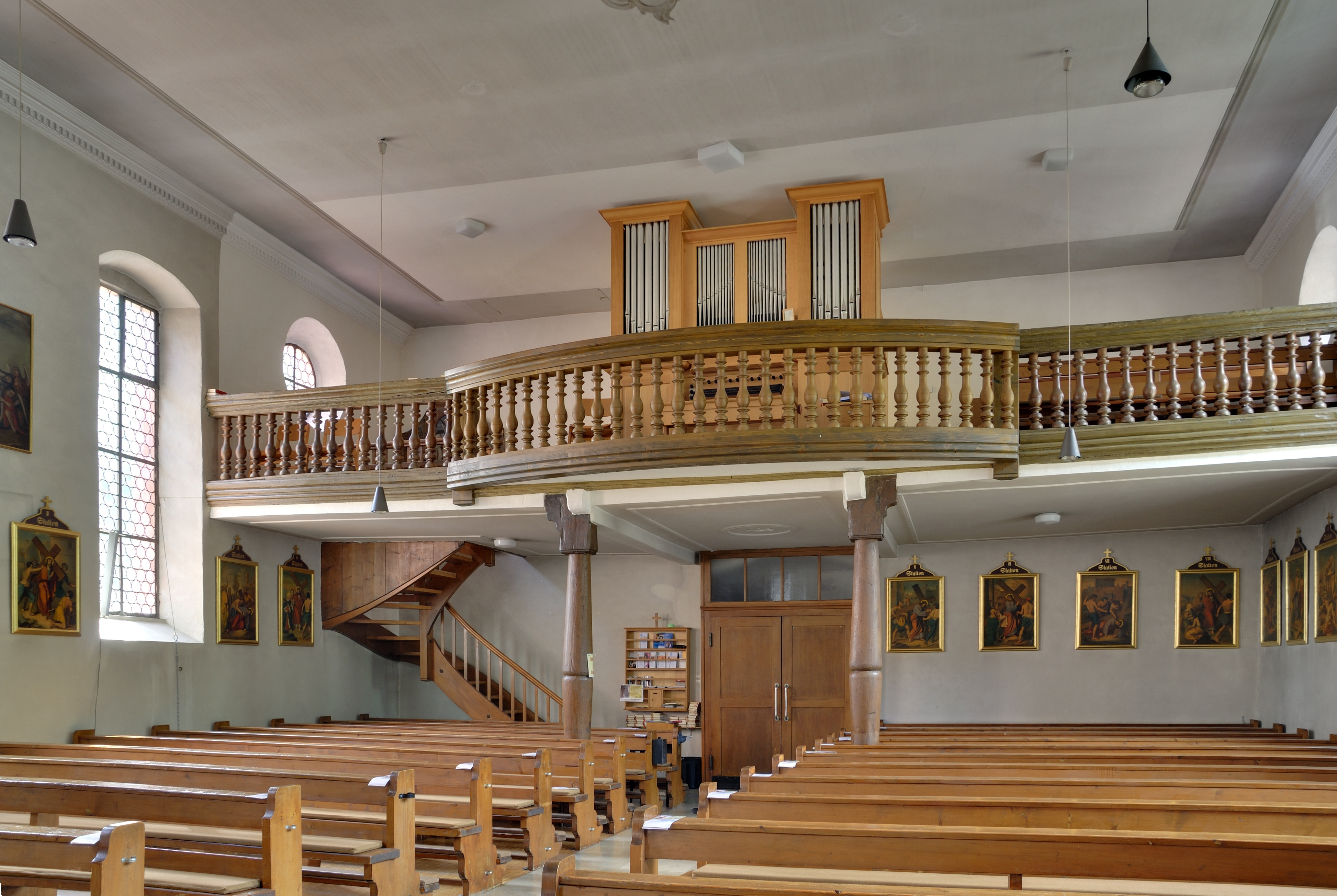 Liel: Saint Vinzenz Church